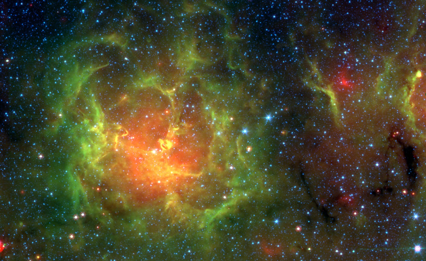 The Trifid Nebula, aka M20, is easy to find with a small telescope and a well-known stop in the nebula rich constellation Sagittarius. But where visible light pictures show the nebula divided into three parts by dark, obscuring dust lanes, this penetrating infrared image reveals filaments of luminous gas and newborn stars.